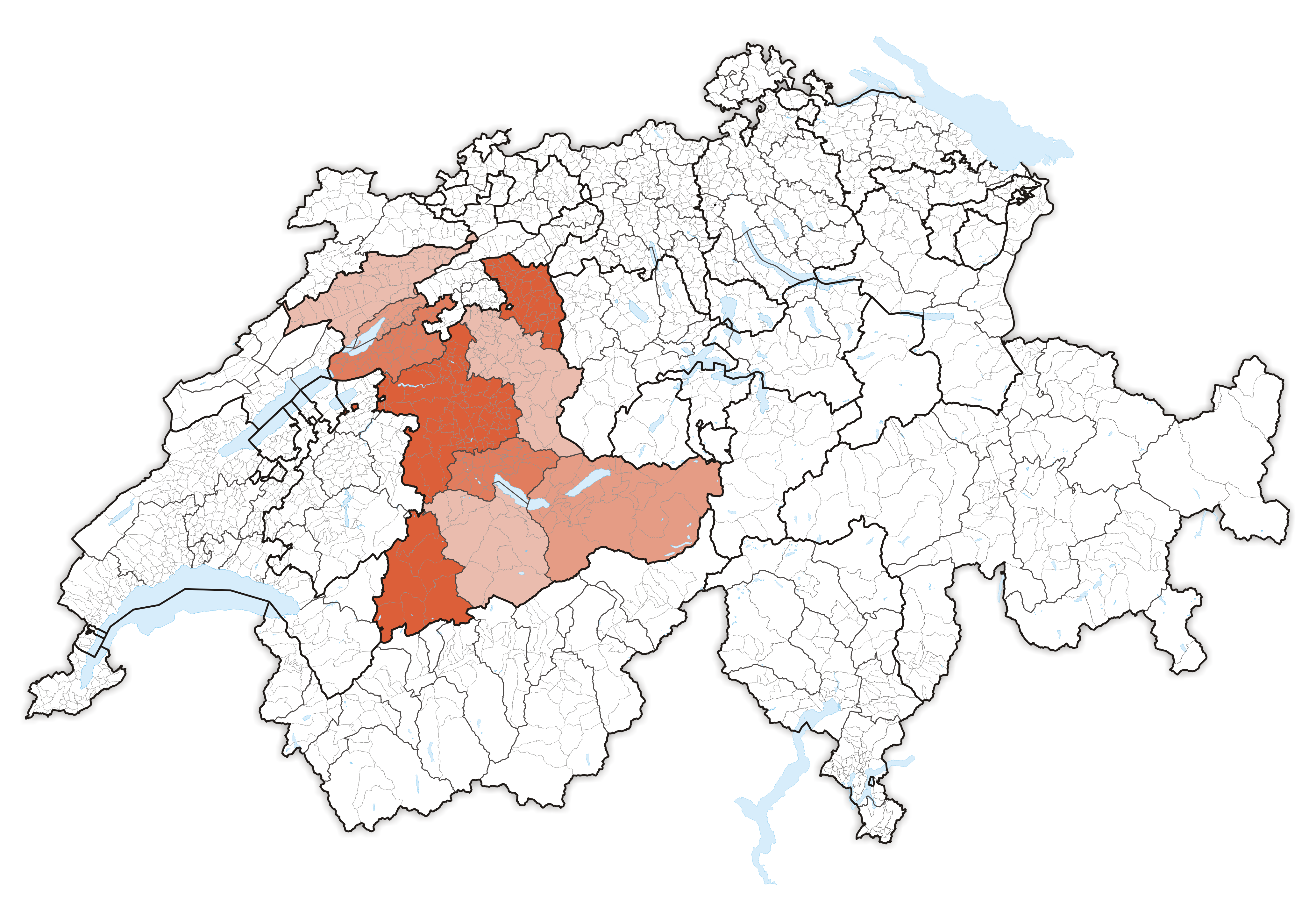 Canton Bern